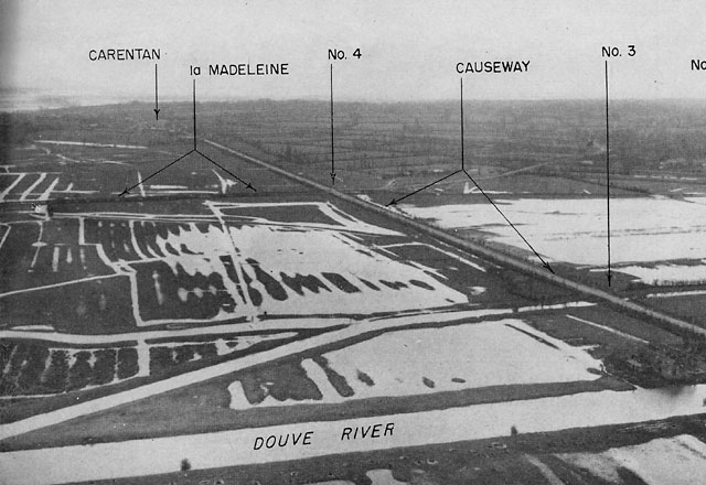 View of the Carentan causeway from the north, with bridges 3 and 4 marking waterways crossed by the causeway, and the town of Carentan in the background.